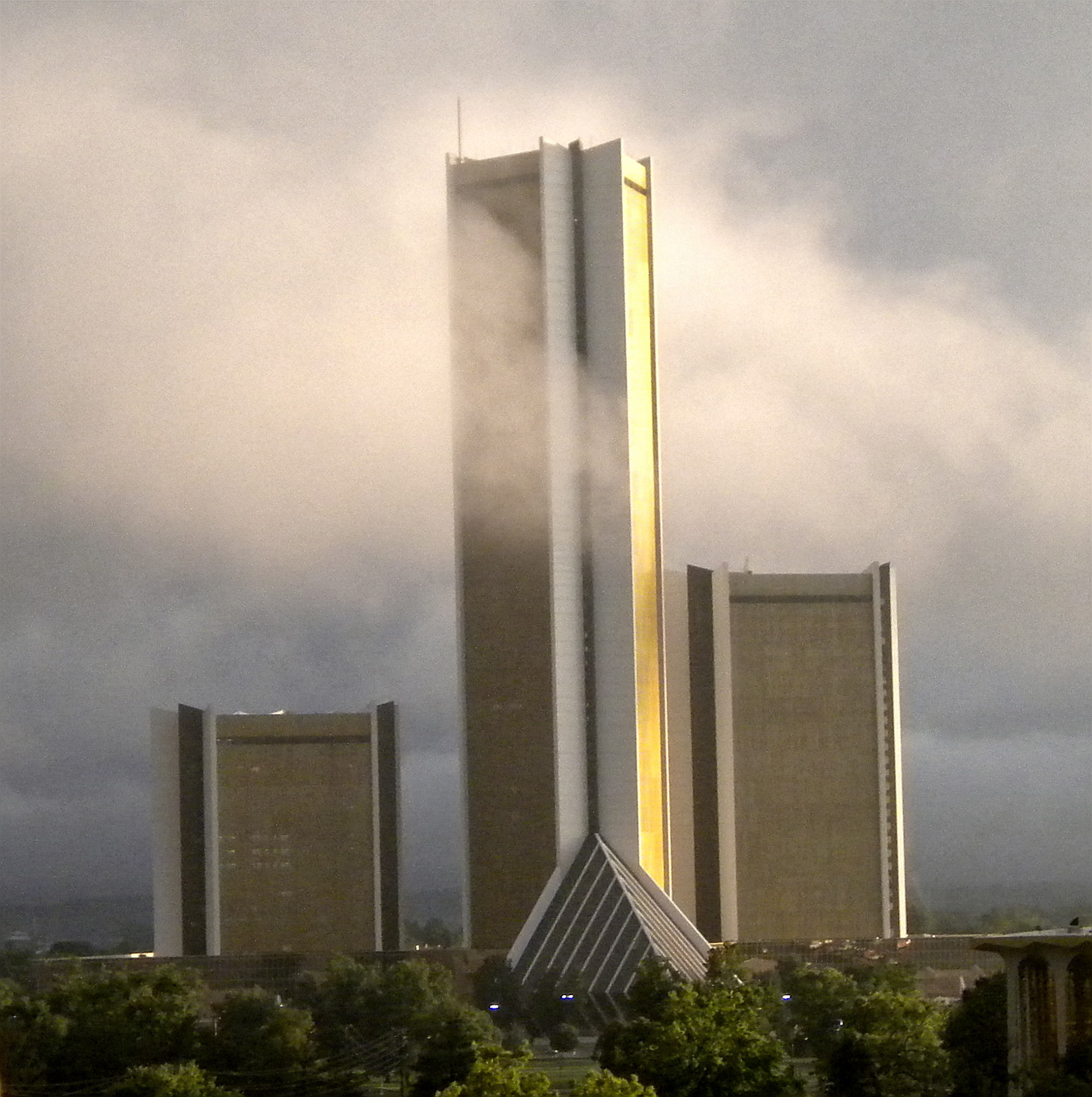 A view of CityPlex Towers enshrouded by mist.